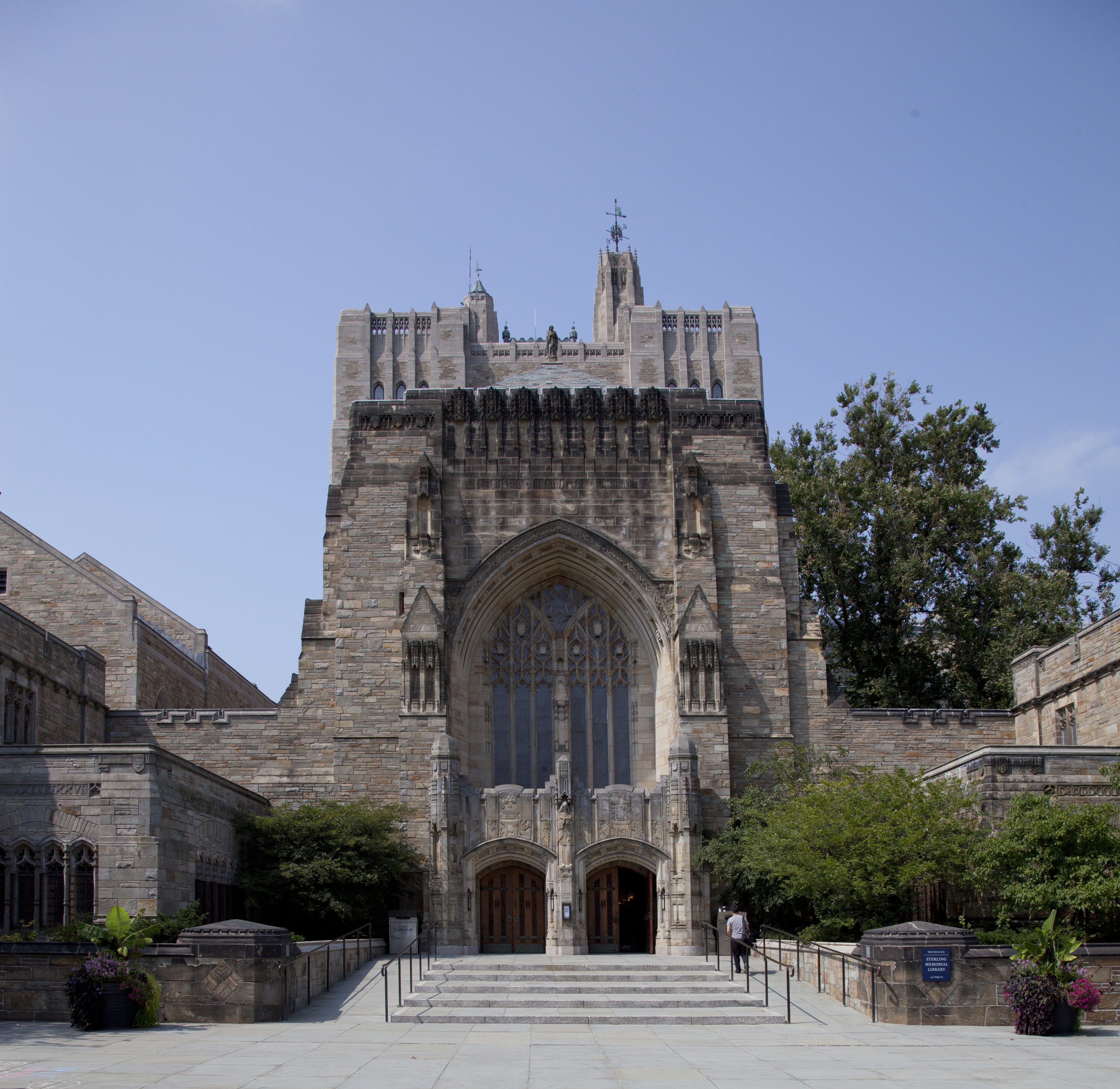 Front entrance of Sterling Memorial Library, Yale University, New Haven, CT